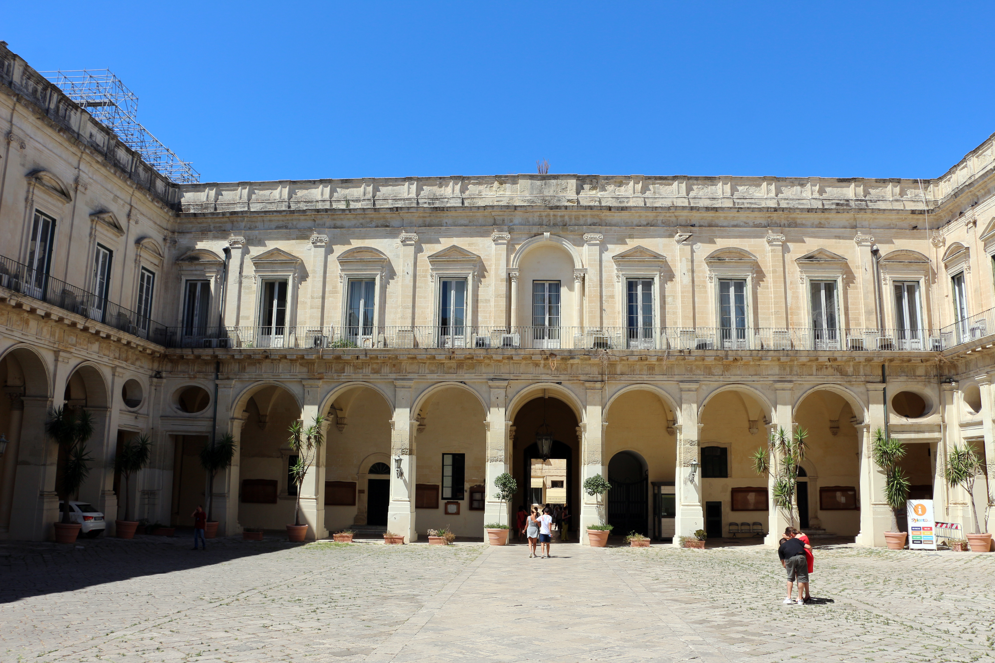 Buildings in Lecce